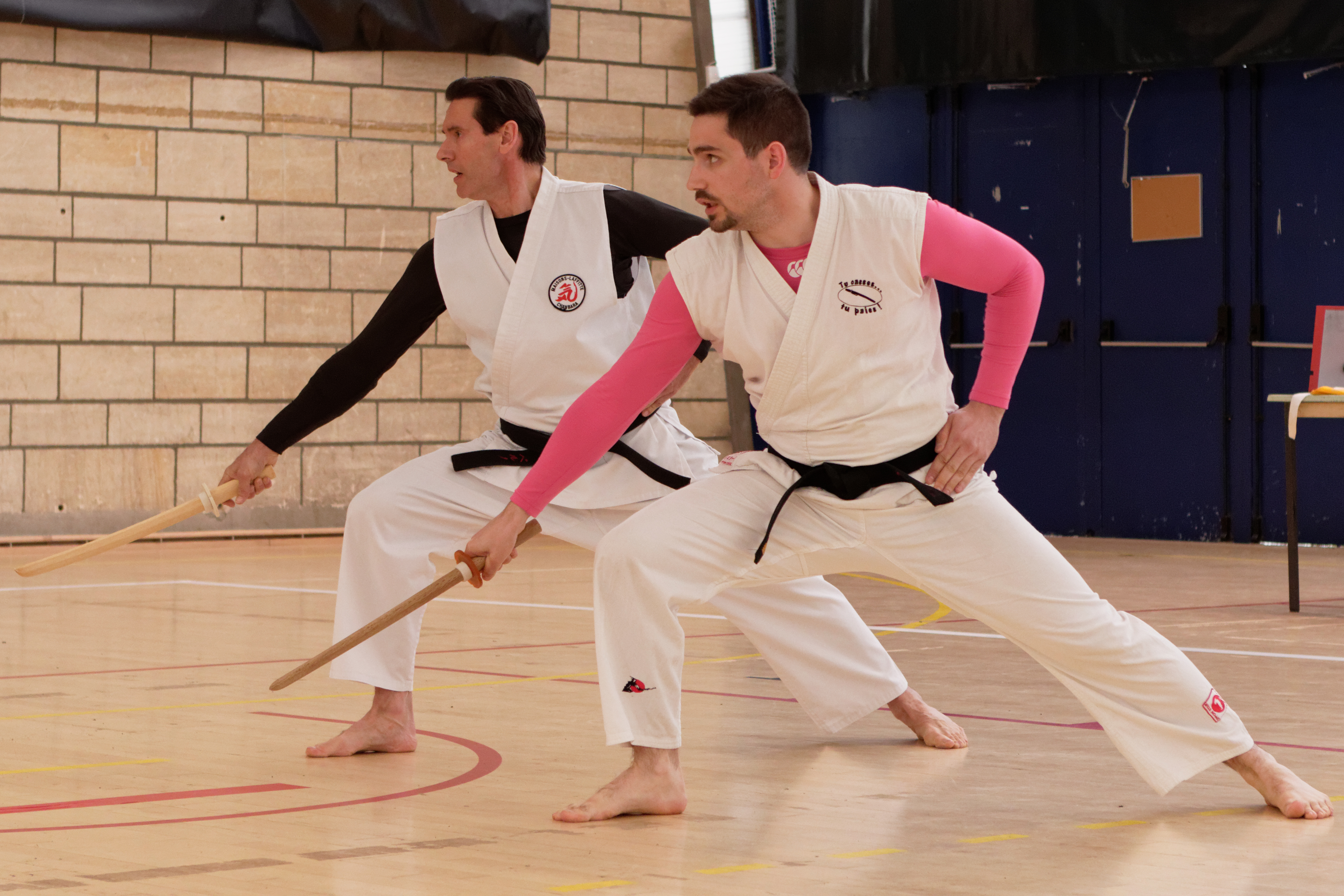 French Chanbara Championship, 12 April 2015.